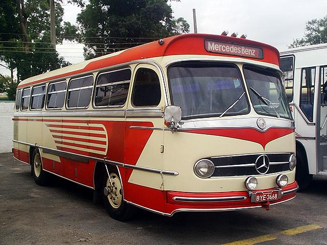 1Mercedes-Benz O352 bus.